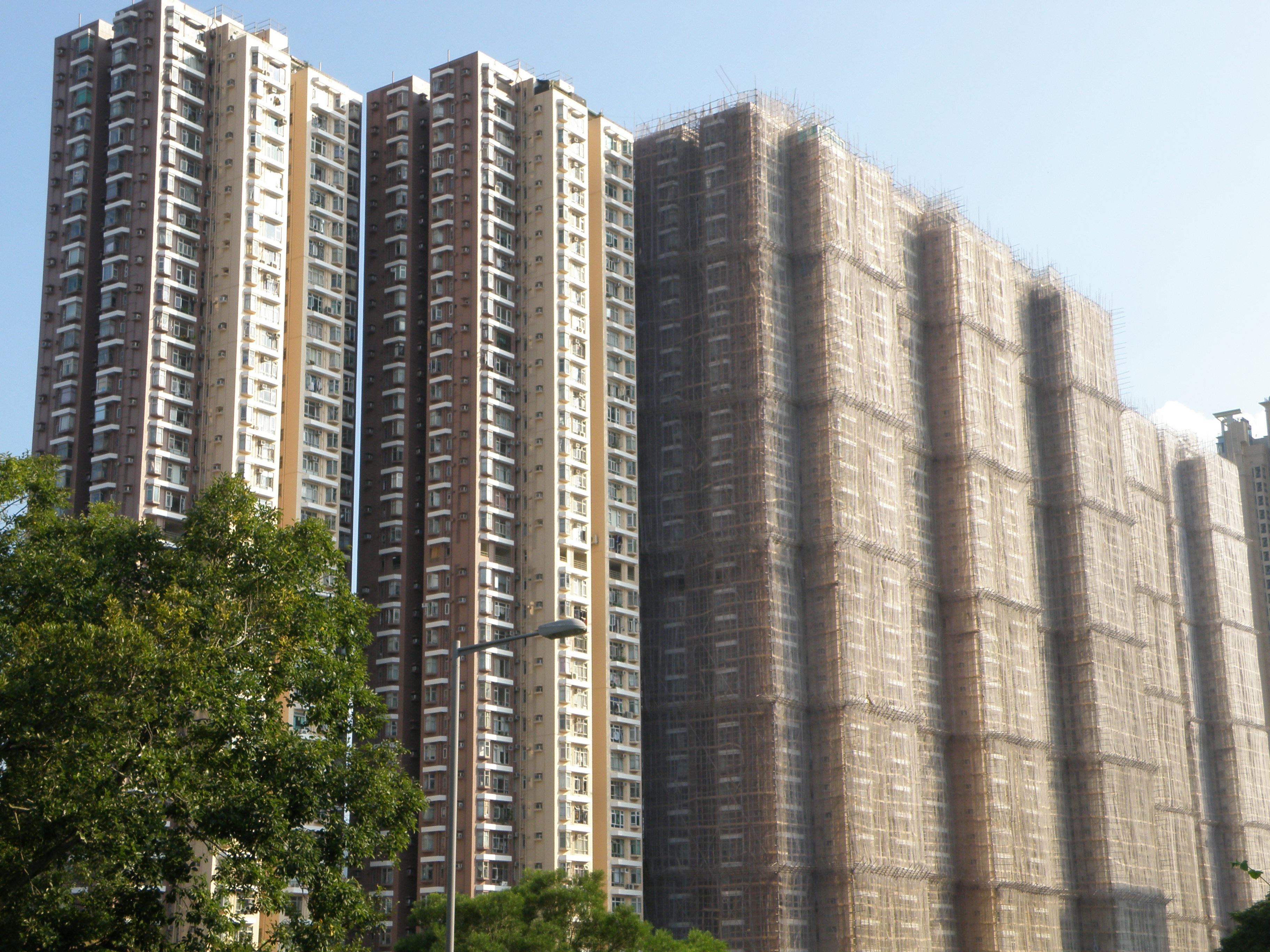 Hong Kong Jubilee Garden under renovation in September 2014.